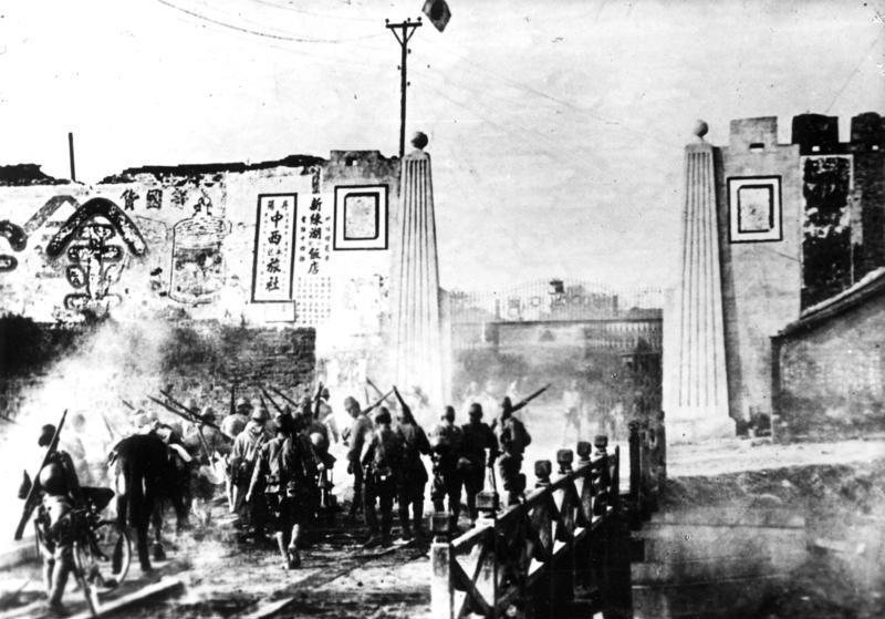 Japanese troops entering Tan-yang, 3 December 1937